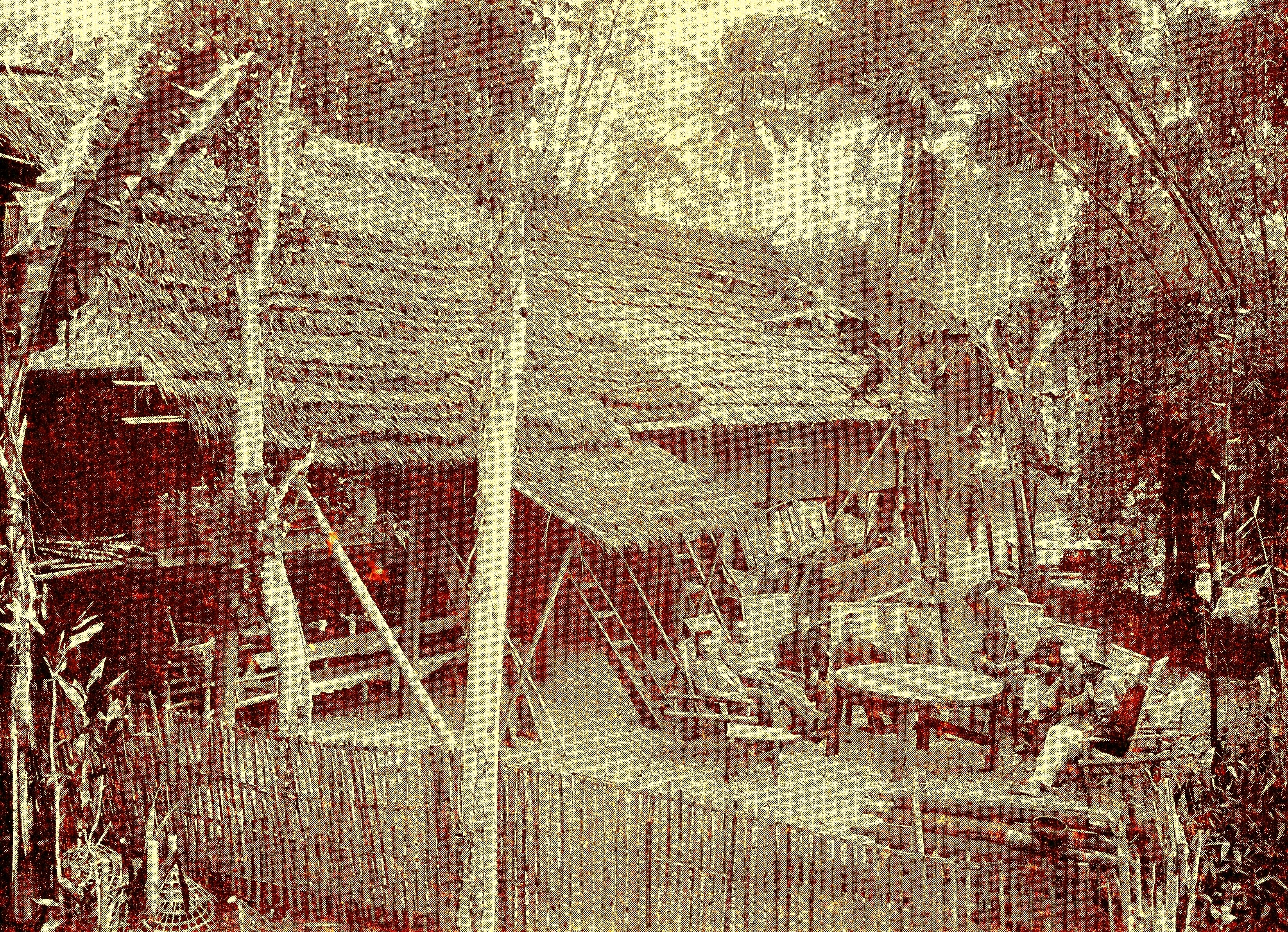 Officiersverblijf in Koeto Lintang